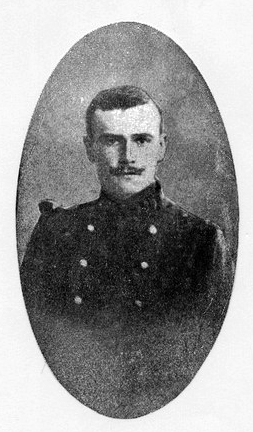 Black an white photographic portrait of Jean de Barrau